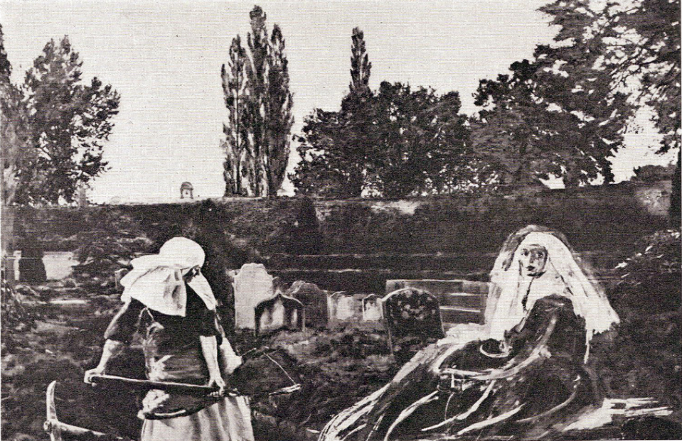 Photo of The Vale of Rest, while not finished